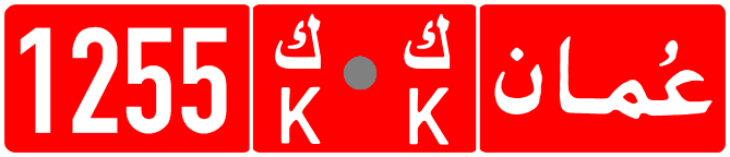 License plate from Oman for non-private vehicles